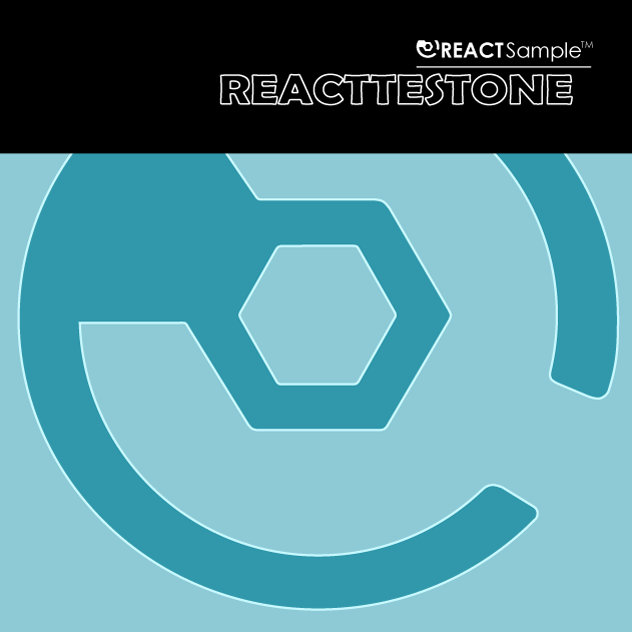 This image or logo only consists of typefaces, individual words, slogans, or simple geometric shapes that i have created to depict / represent closely the Album art of React record company, and that I made myself. The original cover art copyright is believed to belong to the record label or the graphic artist.